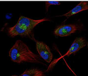 LCHN Subcellular Localization